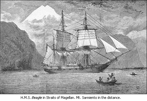 HMS Beagle in Straits of Magellan. Mt. Sarmiento in the distance.